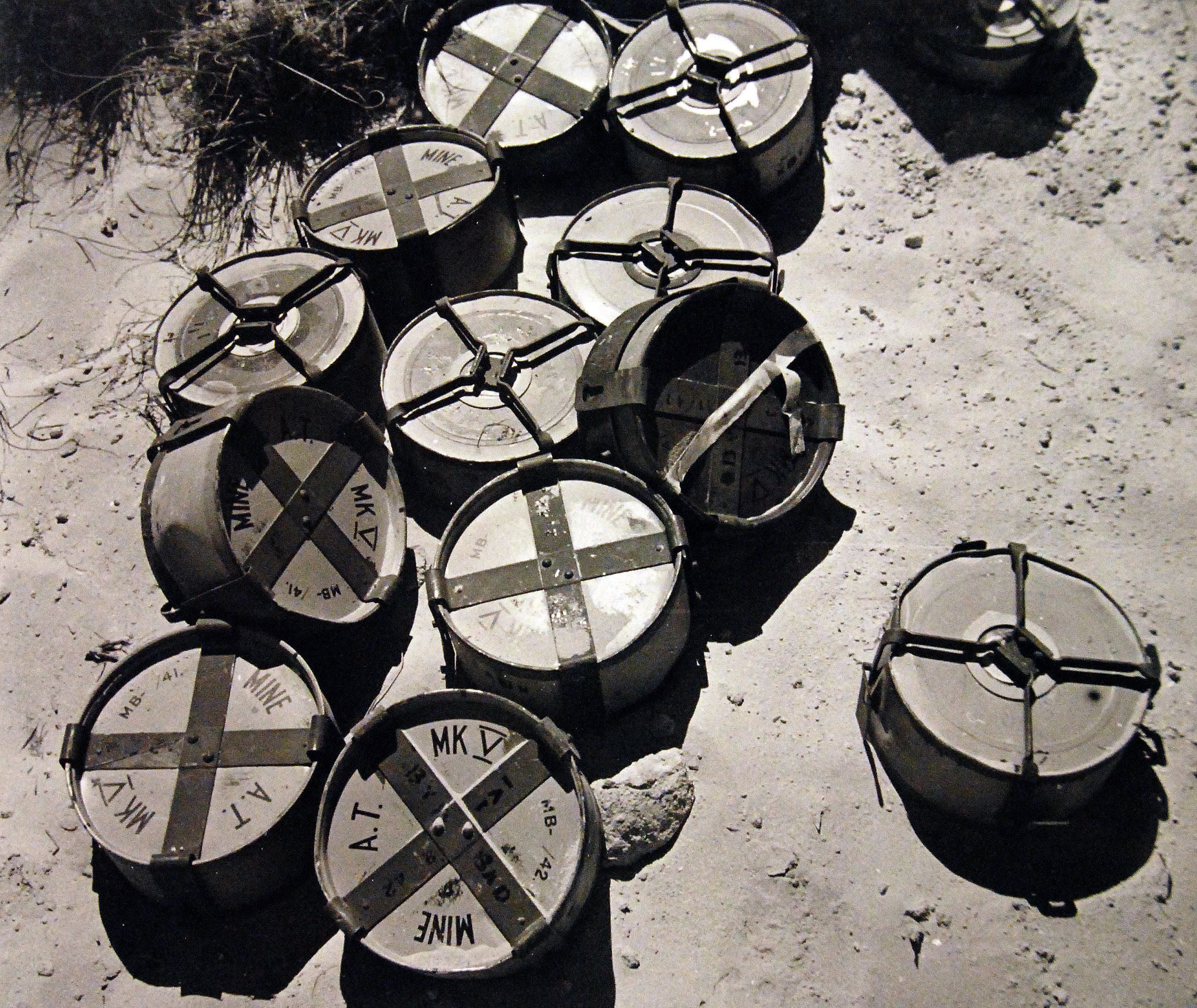 Lot 11588-20: North African Campaign. The laying of mines is playing a big part in the battle and these pictures show South African engineers at work. Shown: Mark 5. Mines. Office of War Information Photograph. (2016/02/11).